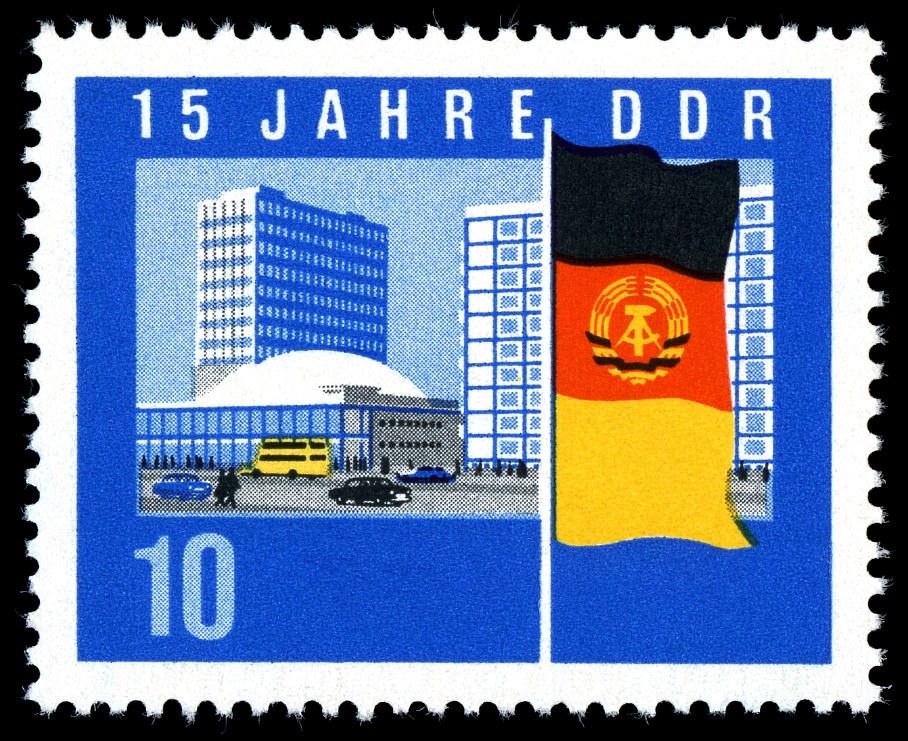 Ausgabepreis: 10 Pfennig First Day of Issue / Erstausgabetag: 6. Oktober 1964 Auflage: 4.000.000 Entwurf: Henning und Dorfstecher Druckverfahren: Offsetdruck Michel-Katalog-Nr: Ländercode-MiNr: 1063 A Licensing This file is most likely NOT in the public domain. It has been marked for review, and will be deleted in due course if the review does not find it to be in the public domain.This file was previously considered to be in the public domain as a German stamp; it is possible that it is in the public domain for other reasons, in which case a new rationale will be applied as part of the review process. See below for the previous rationale. Previous public domain rationale, no longer applicable This stamp is in the public domain in Germany because it was released by the postal administration of the German Democratic Republic or the Soviet occupation zone (Deutschen Post der DDR) whose legal successor is the Federal Republic of Germany. Thus it is an official work according to German copyright law (§ 5 Abs. 1 UrhG).